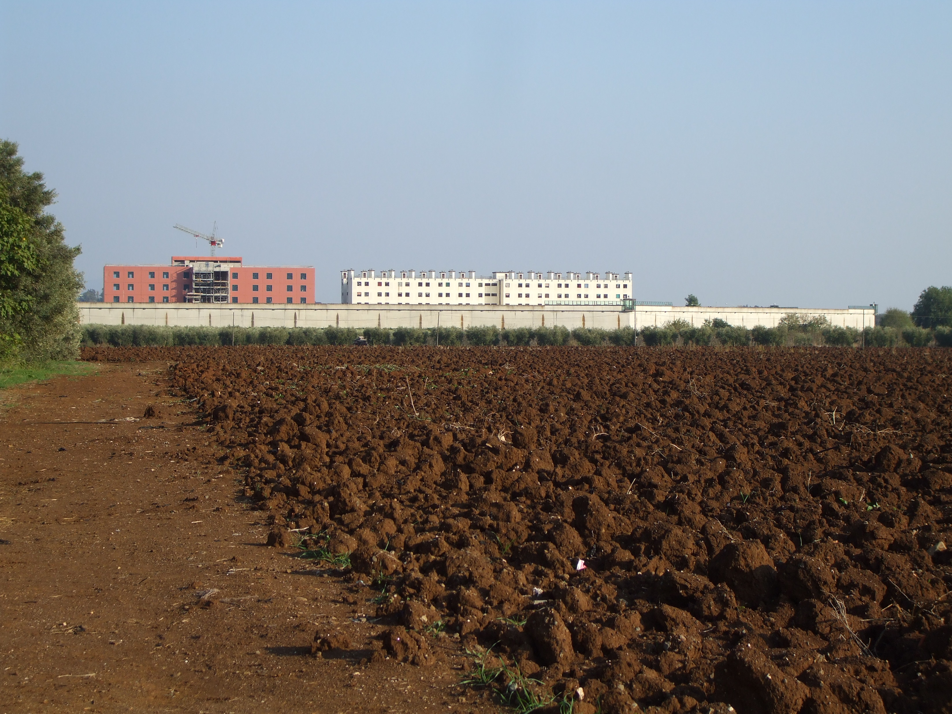 Velletri - the prison